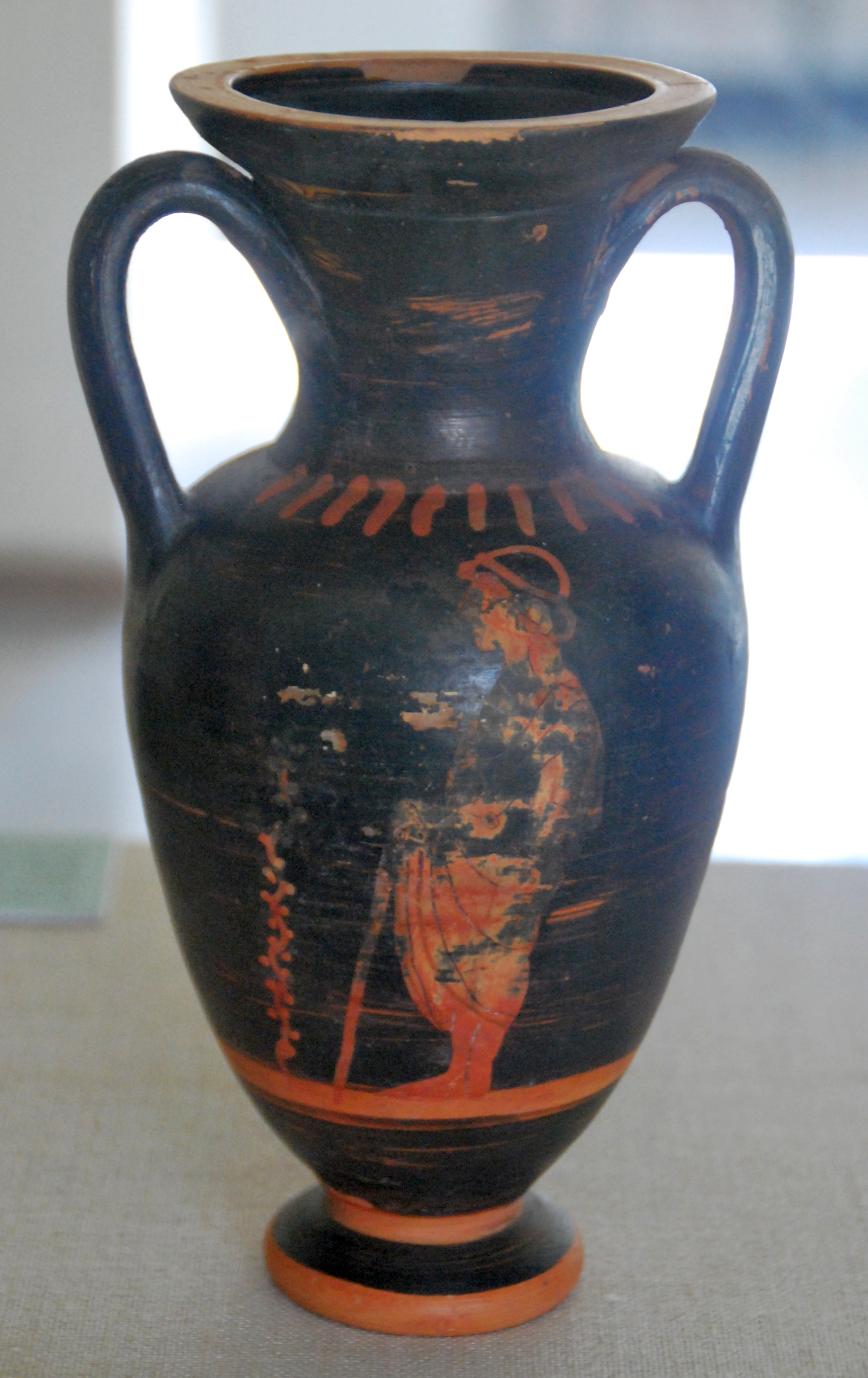 pseudo-etruscan red-figure amphora; attributed to the Praxias group from Vulci; on both sites young man with a coat; about 480/50 BC; former Collection Feoli, now Antikensammlung Würzburg, inventory number L 806.